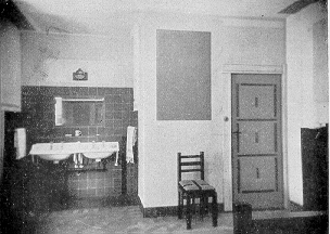 Anonymous. Bedroom. c 1919. Photo. From Bruno Taut. Die neue Wohnung. Die Frau als Schöpferin. Leipzig: Klinkhardt & Biermann, 1924.